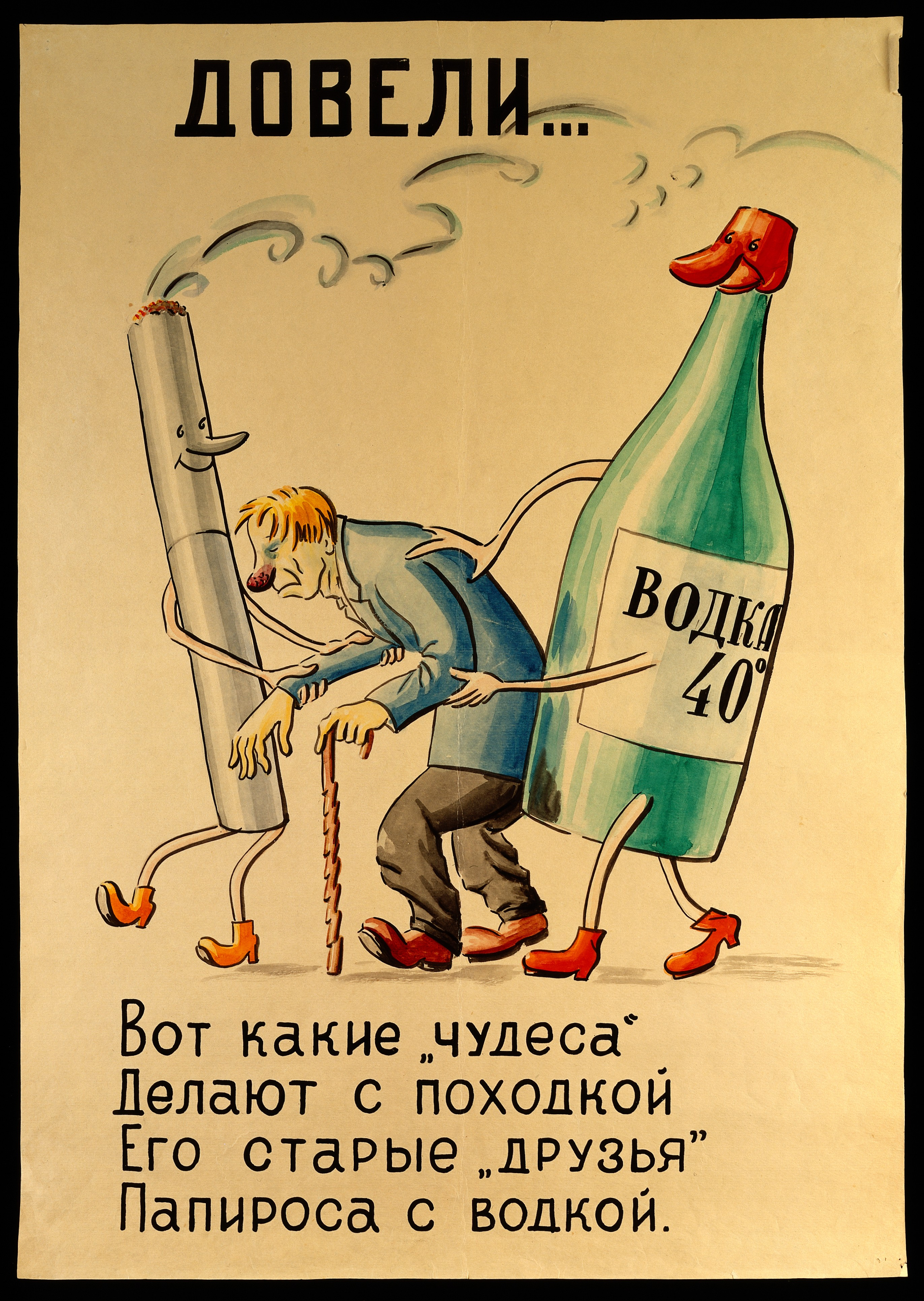 A sick man in Russia who thinks he is being helped to walk by a cigarette and a vodka bottle, whereas they are really false friends who are hindering him. Watercolour, 195-. Iconographic Collections Keywords: CIGARETTE; vodka; SICK